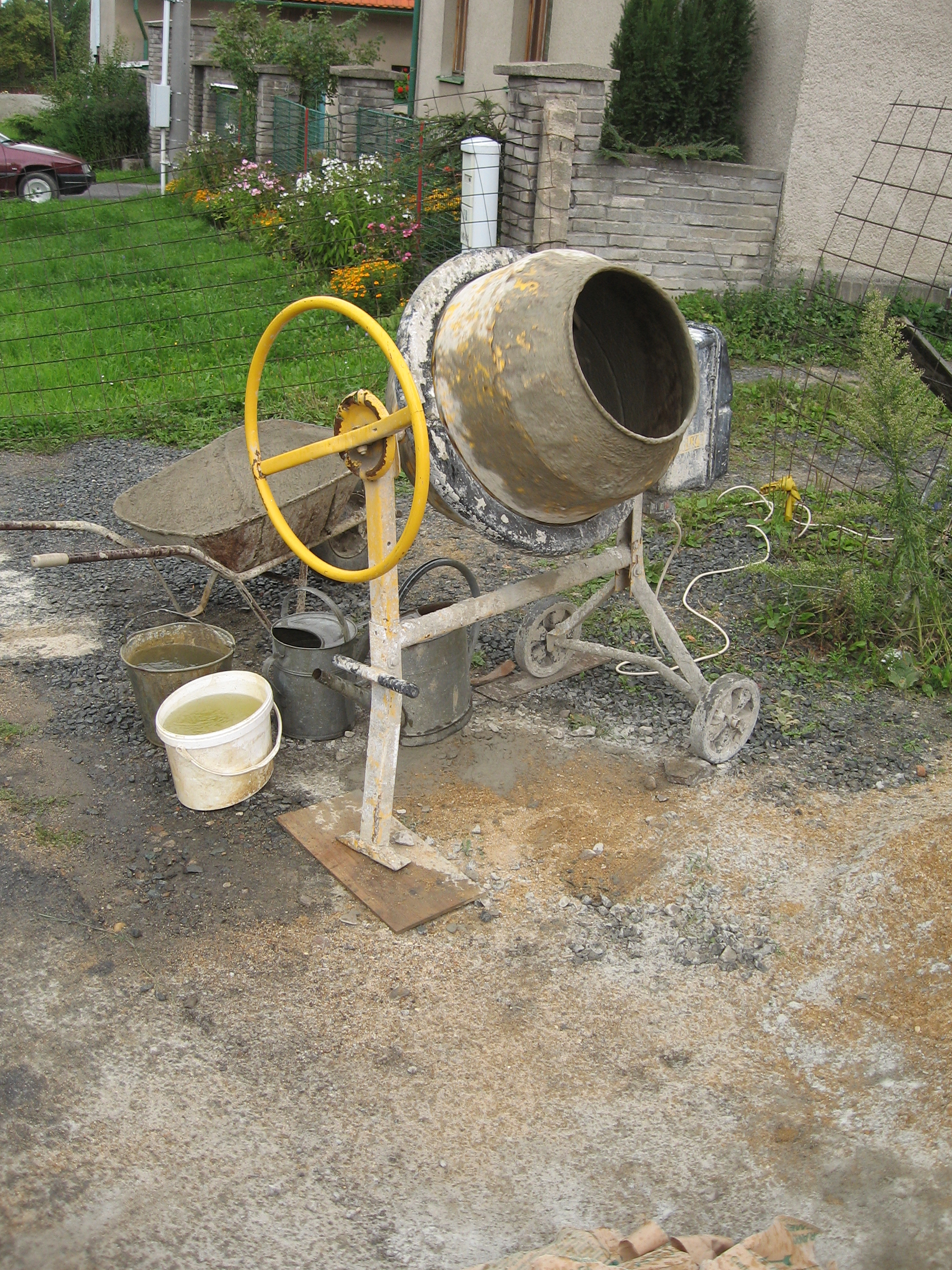 Cement mixer